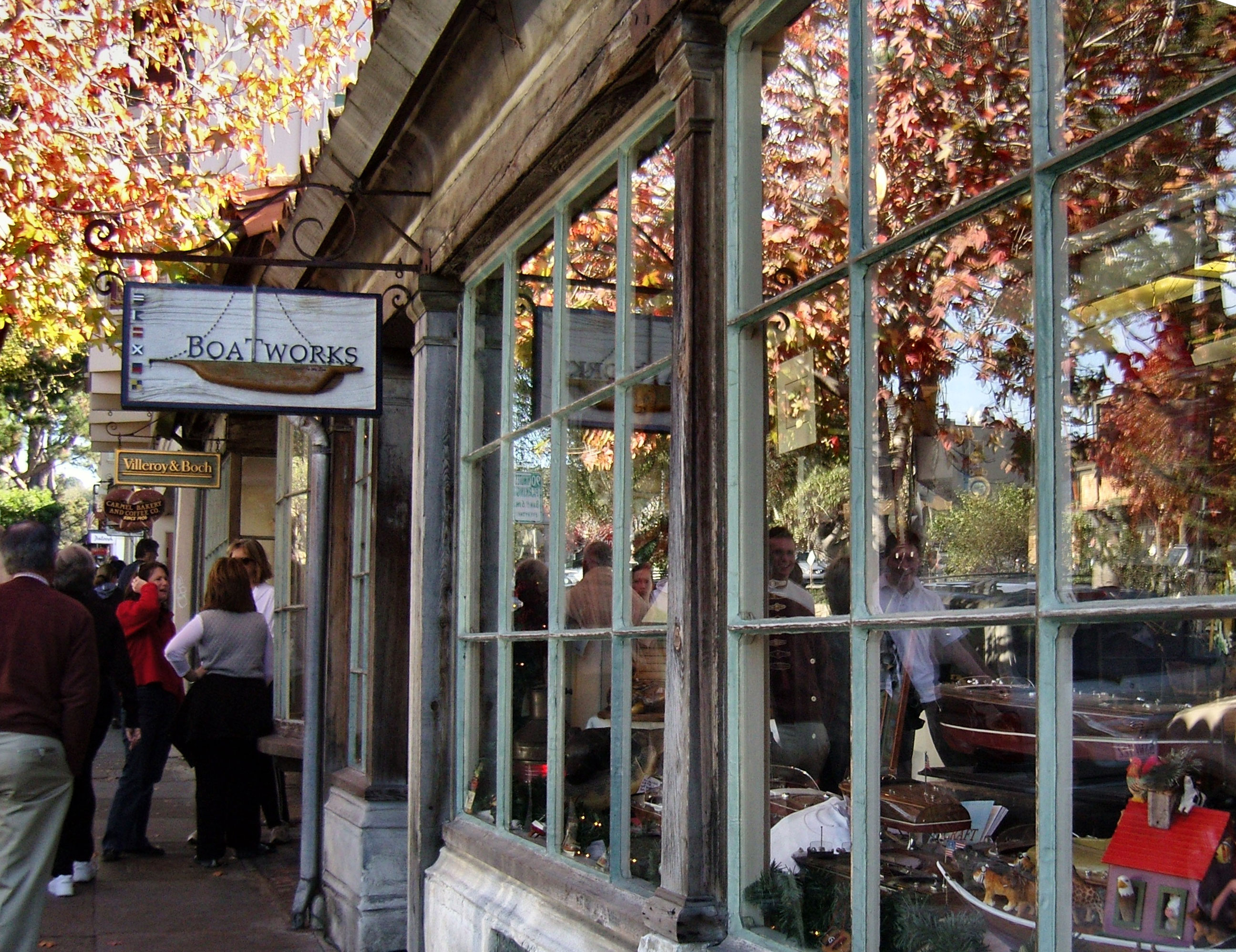 Boatworks, Carmel-by-the-Sea, California.